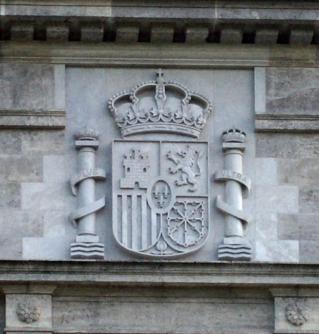 Embassy of Spain in Berlin-Tiergarten Detail:Coat of Arms